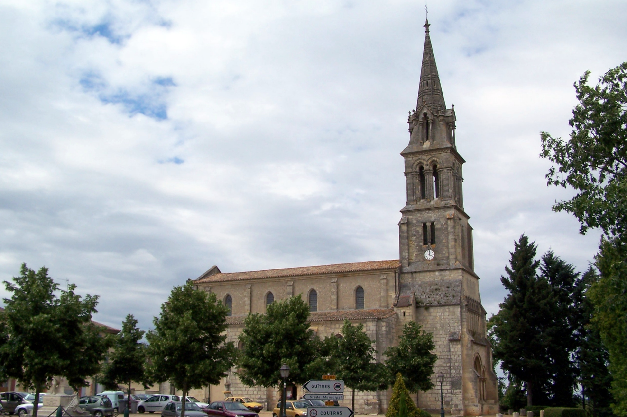 Church Saint-Pierre of Abzac (Gironde, France)